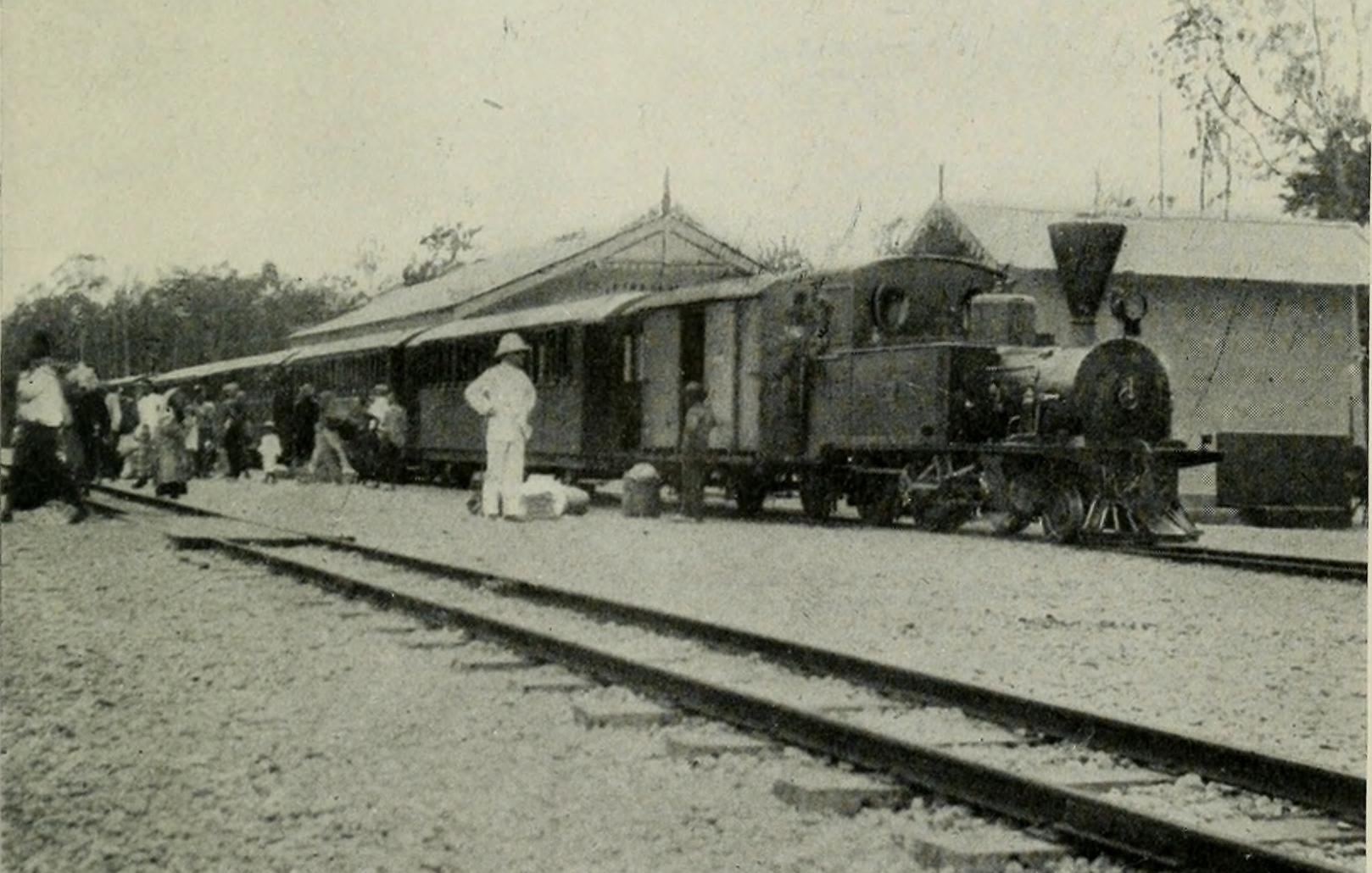 Title: Java and her neighbours; a traveller's notes in Java Celebes, the Moluccas and Sumatra Year: 1914 (1910s) Authors: Walcott, Arthur Stuart, 1869-1923 Subjects: Publisher: New York Putnam Text Appearing Before Image: Photo by Carr M. Thomas UNLOADIXG CATTLE, SUMATRAN COAST Text Appearing After Image: Photo by Carr M. Thomas SUMATRAN RAILWAY TRAIN AT KWALA LANGSA NORTH SUMATRA PORTS 337 The last two stops of the steamer were productive of even less satisfactory results than that at Sigli. At Lho Seumawe, in an atmosphere of malaria and fever, there is a small settlement of Euro-peans and a large colony of Chinese, but not a single attractive feature, natural or artificial. Westopped for a day to discharge cargo and to take on a consignment of three large bags of peanuts and a Chinese passenger. At Kwala Langsathere was not even a settlement to be seen, only a toy station of the narrow-gauge railway, a cattlepen, and a half dozen filthy, rotting, frame shan-ties built over pools of fetid slime and inhabited by sallow, pock-marked Chinese. The approach to Kwala Langsa is through a deep bay, and a number of thickly wooded islands add a redeeming touch of beauty to the otherwise depressing monotony of mangrove swamps and dirty water. The town, of which the railway station and a wharf form the port